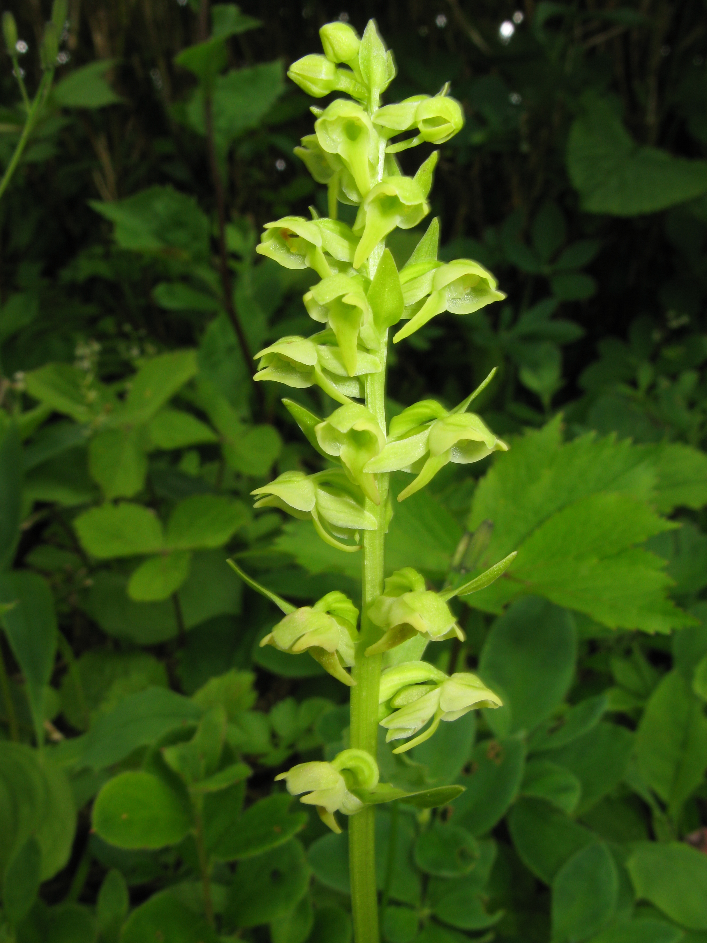 Platanthera takedae subsp. uzenensis, Mount Iide-san, Fukushima pref., Japan